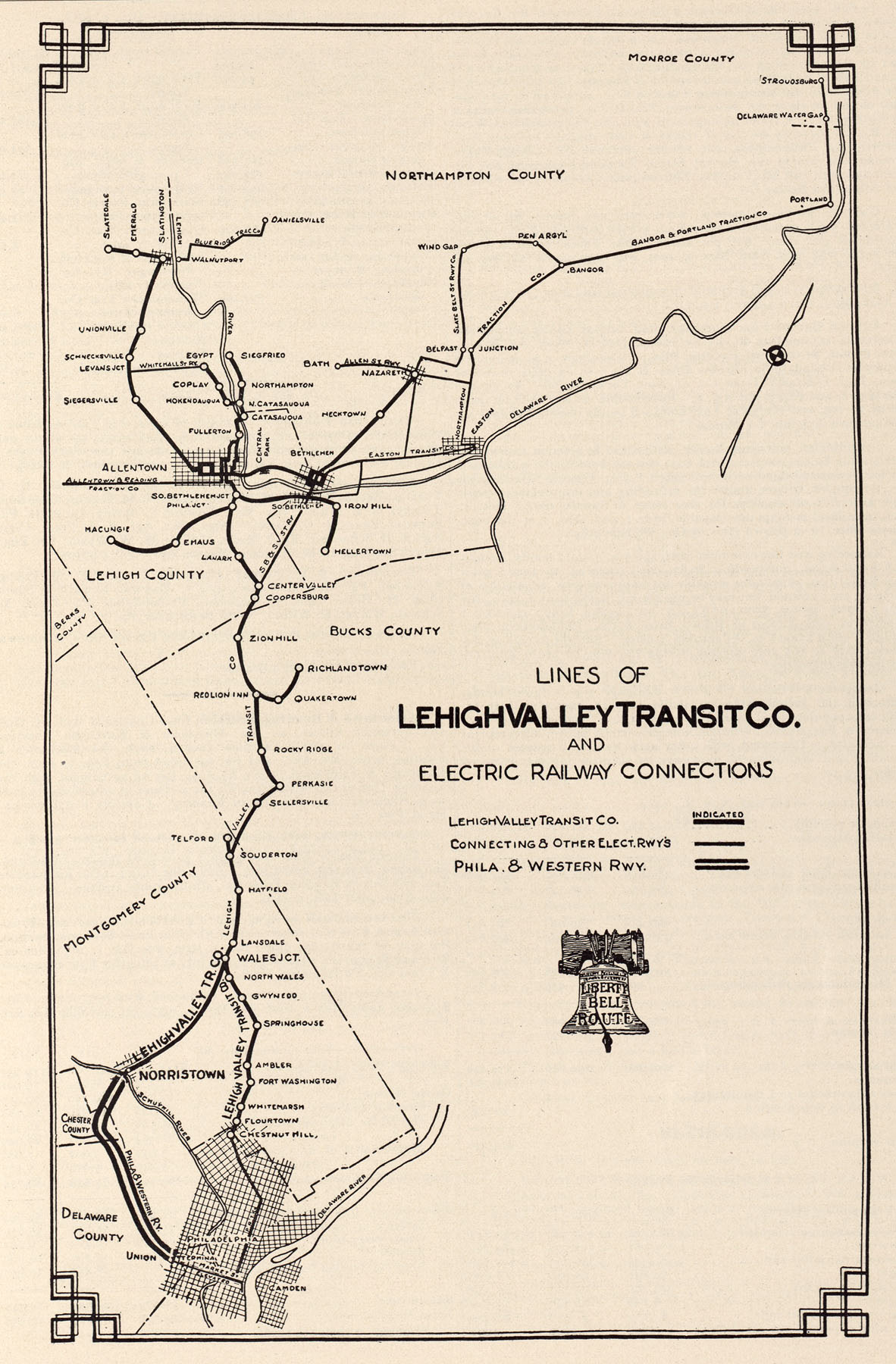 1913 map of the Lehigh Valley Transit Company and connecting lines